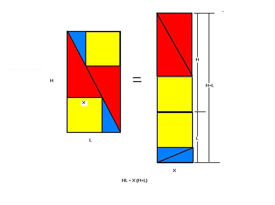 Find the side of a square in a right angle triangle勾股容方几何解